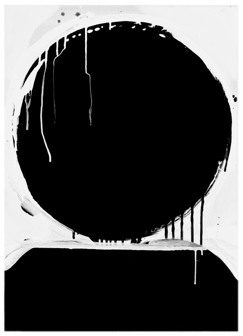 Tatjana Doll, 20 PICT Theodor, 2010, enamel on canvas, 70 x 50 cm